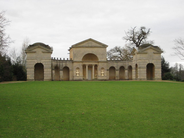 Temple of Venus Another Stowe temple which is licensed for civil wedding ceremonies